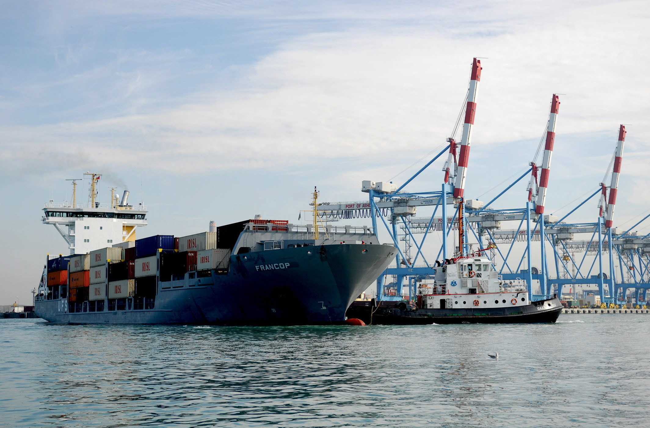 November 4, 2009. Israel Navy forces stopped the cargo ship "Francop" and found missiles, rockets and other weaponry. The ship was brought to the Ashdod port for inspection. Pictured here: The "Francop" cargo ship being led to the Ashdod Port.